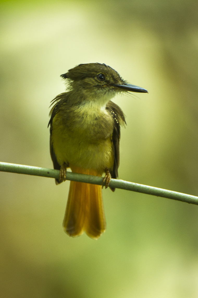 Royal Flycatcher - Rio Tigre - Costa Rica_S4E9879